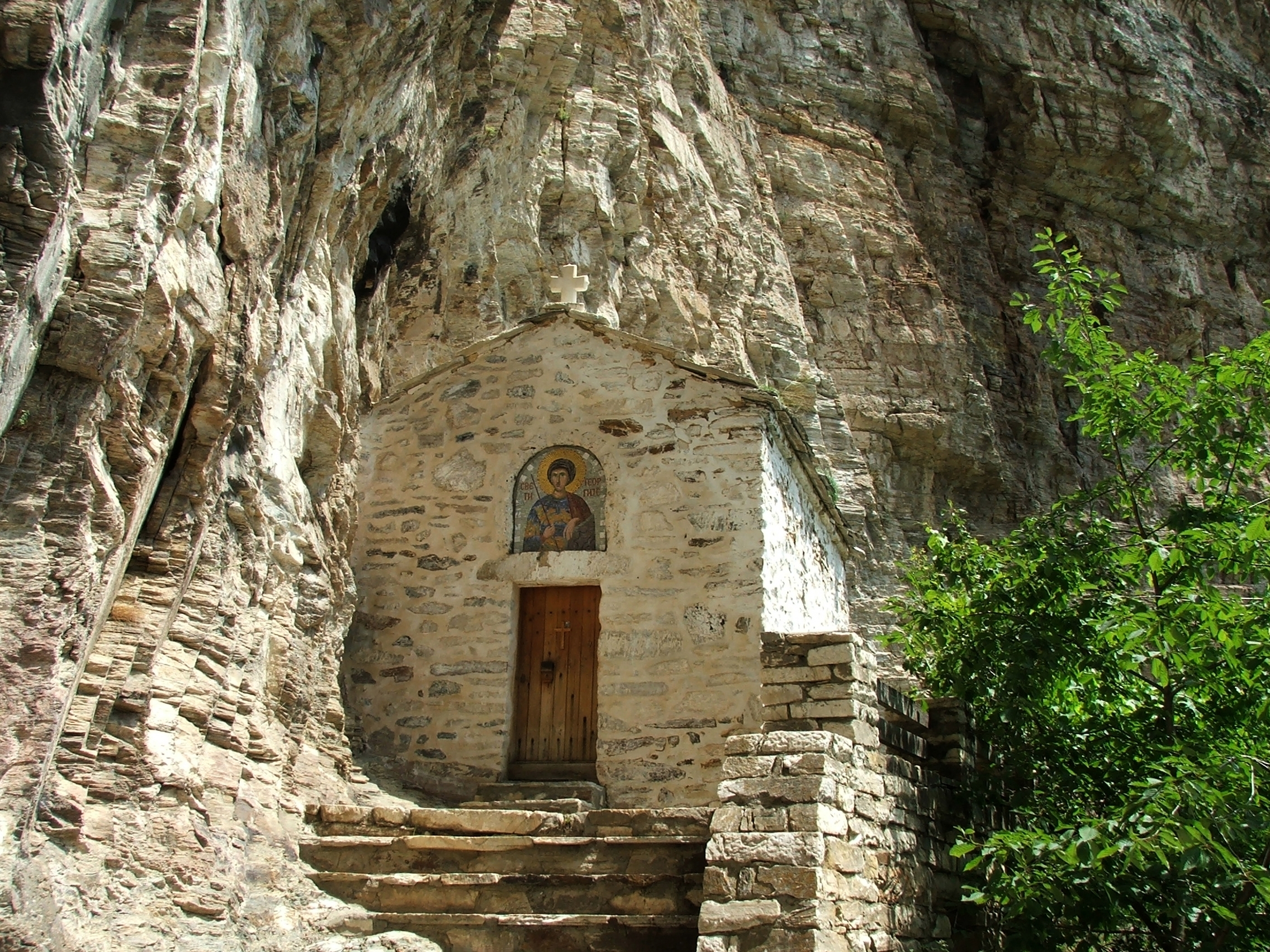 Upper Hermitage of Saint Sava, Studenica - St. George ChurchСрпски (ћирилица): Црква Светог Георгија - Горња испосница Светог Саве, Студеница